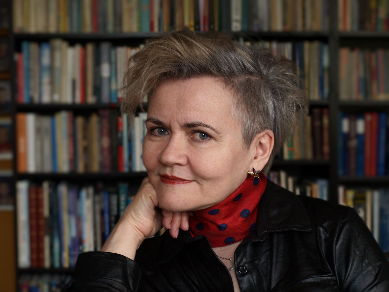 Faroese filmmaker and writer Katrin Ottarsdóttir